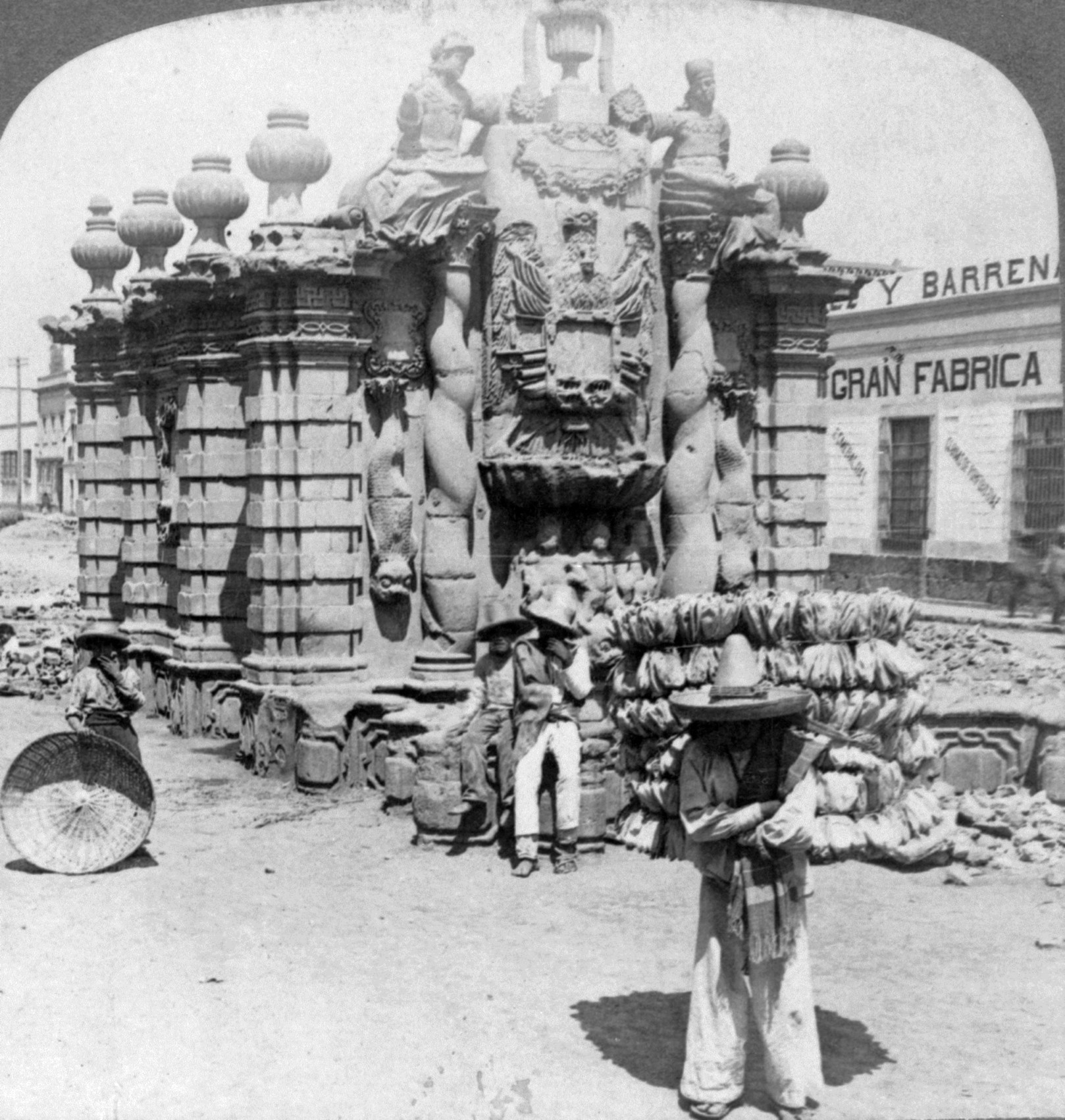 The "Water's leap" - fountain at end of aqueduct bringing water from Chapultepec, Mexico City, Mexico